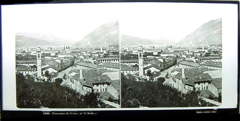 Claude Marie Ferrier (1811-1889) & Charles Soulier (+ 1876) - n. 7499 - "Panorama de Come", No. 3 (Italie)" ("View of Como # 3"). Stereo card.